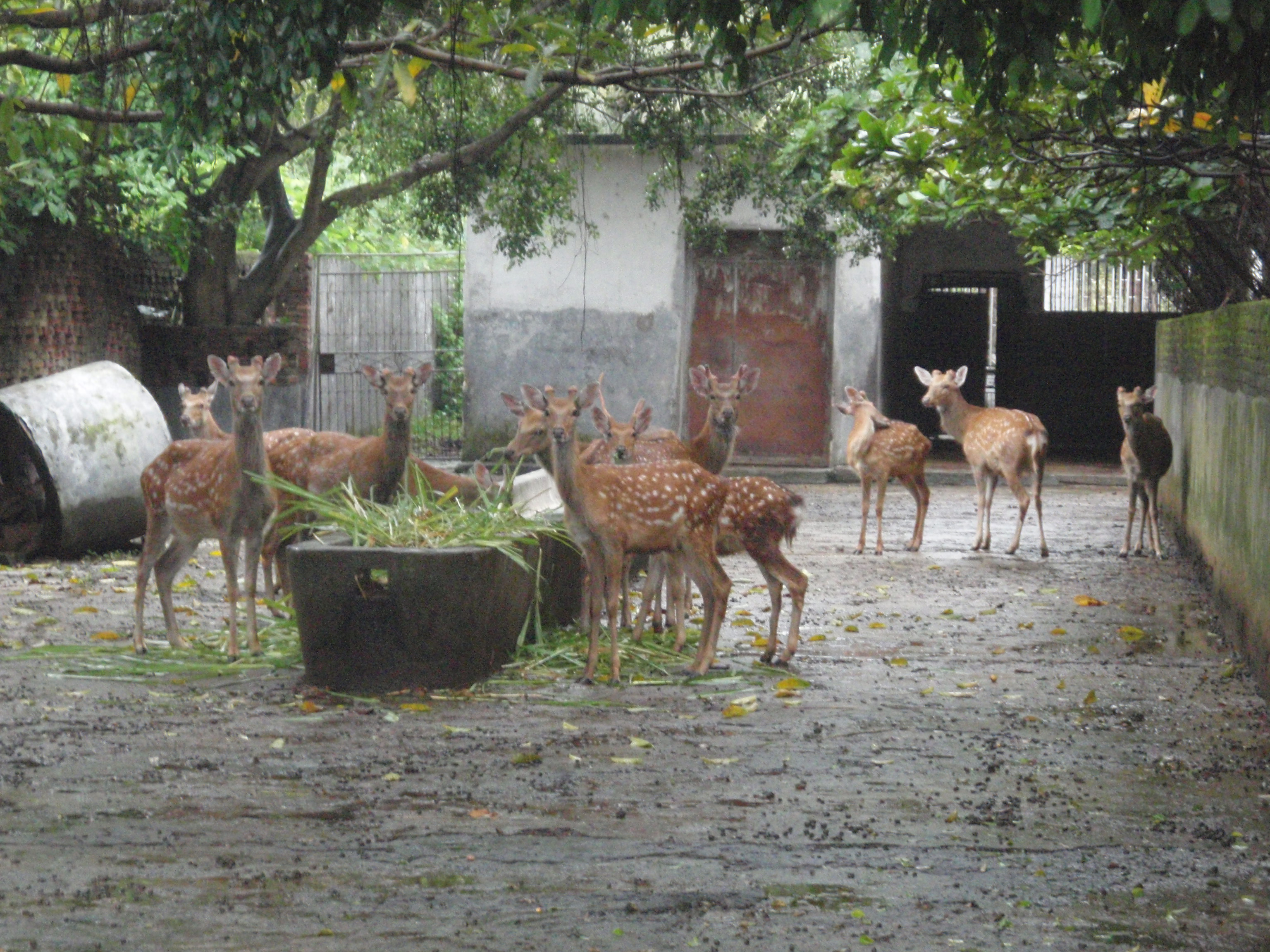 Deers from Deer farm in Tunchang County, Hainan Province, China